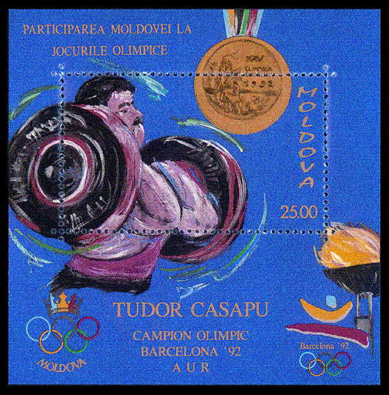 Stamp of Moldova